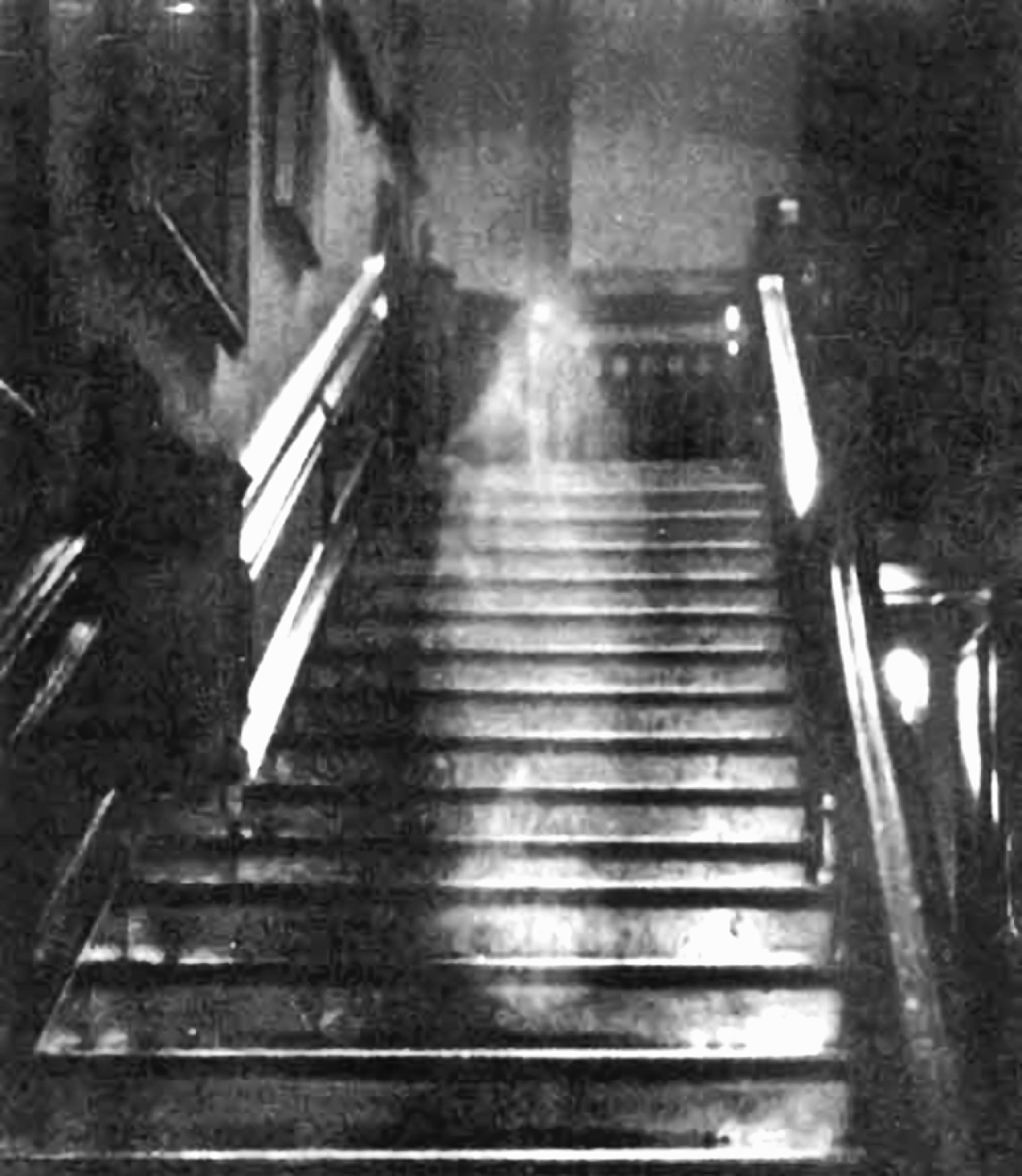 Photograph of the Brown Lady